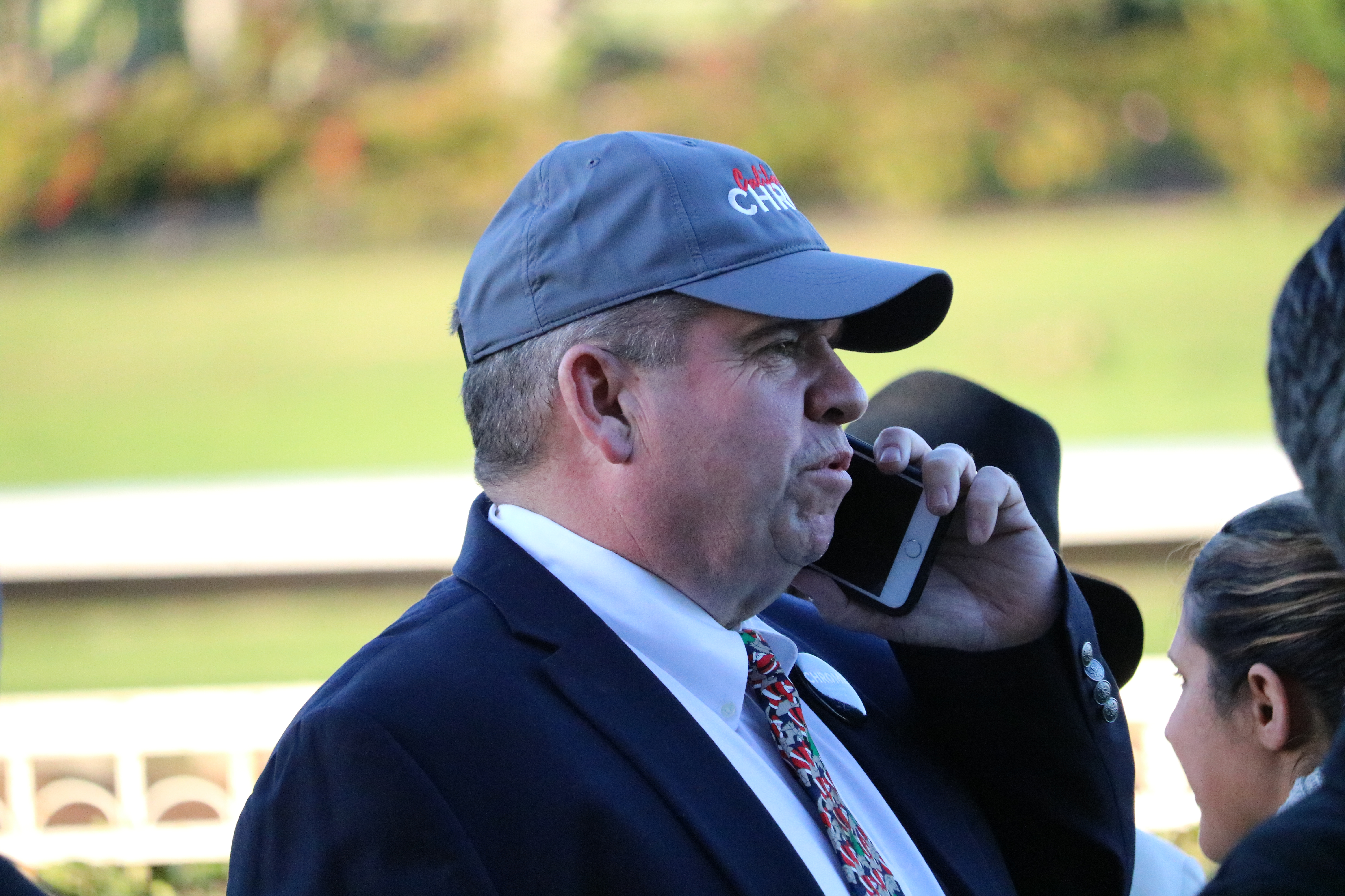 Frank Taylor of Taylor Made Farms, members of California Chrome, LLC ownership group, Los Alamitos Race Track, December 17, 2016